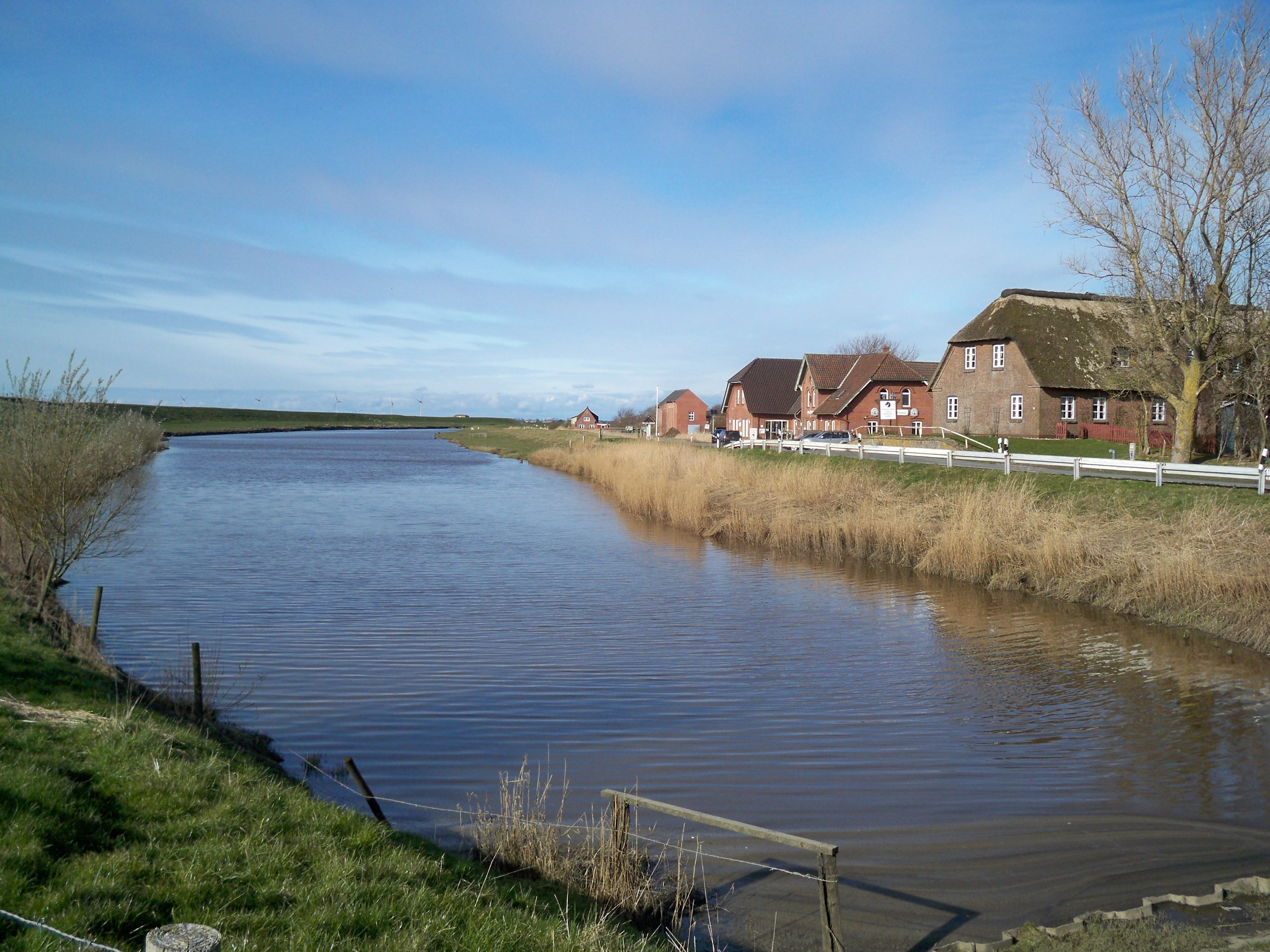 Bongsiel, Ockholm, Schleswig-Holstein, with restaurant and pumping station